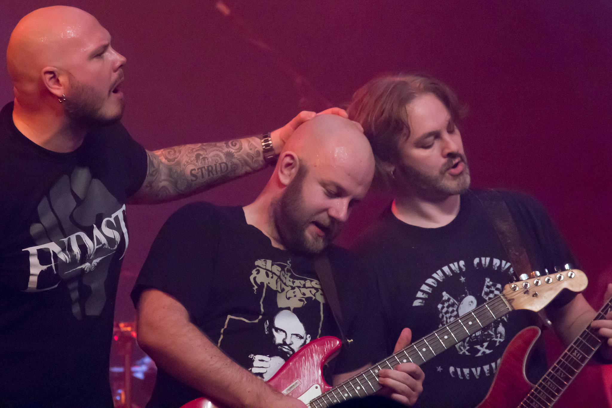 Soilwork on the Barge to Hell, Dec. 2012